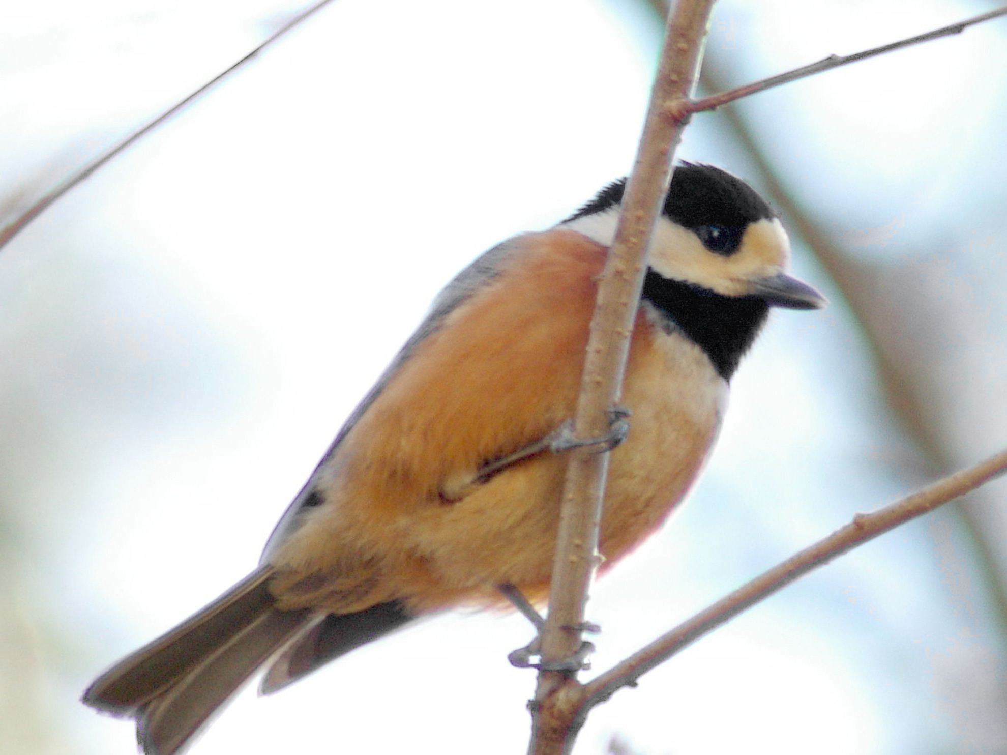 varied tit (yamagara). Japan, Tsukuba (wild) 2007